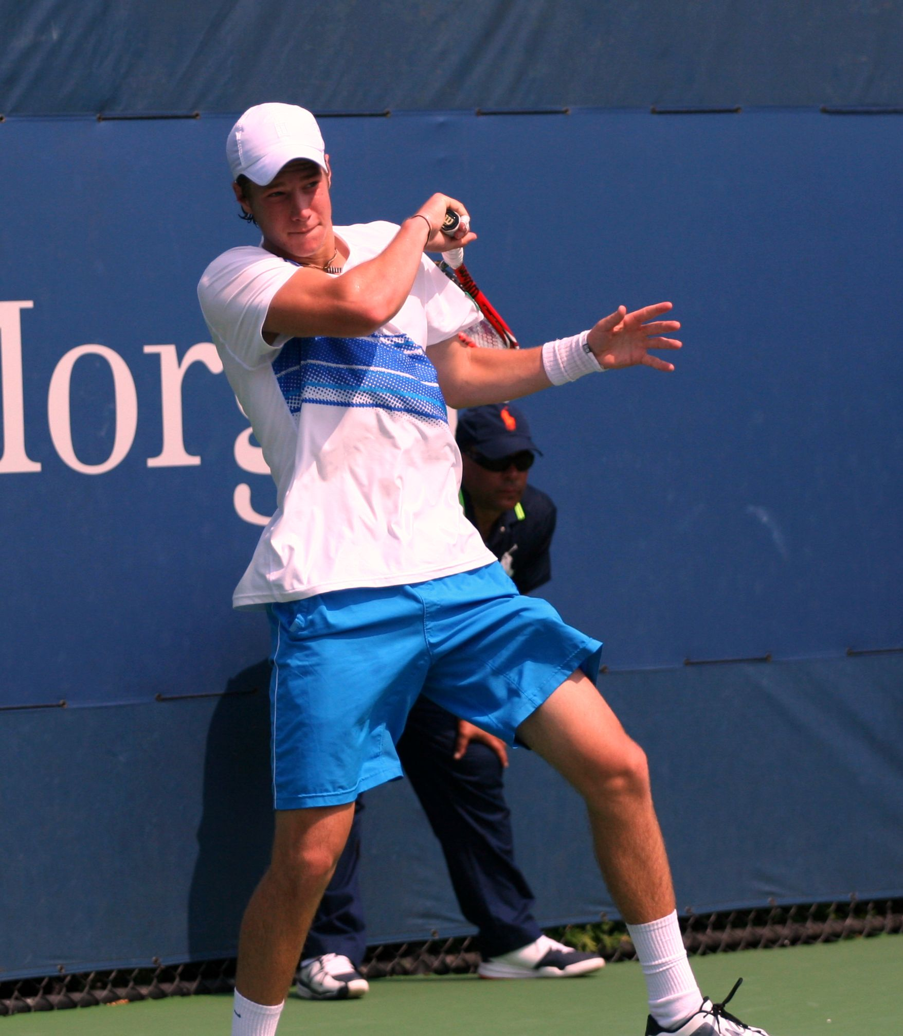 U.S. Open Juniors Sunday, Sept. 4, 2011